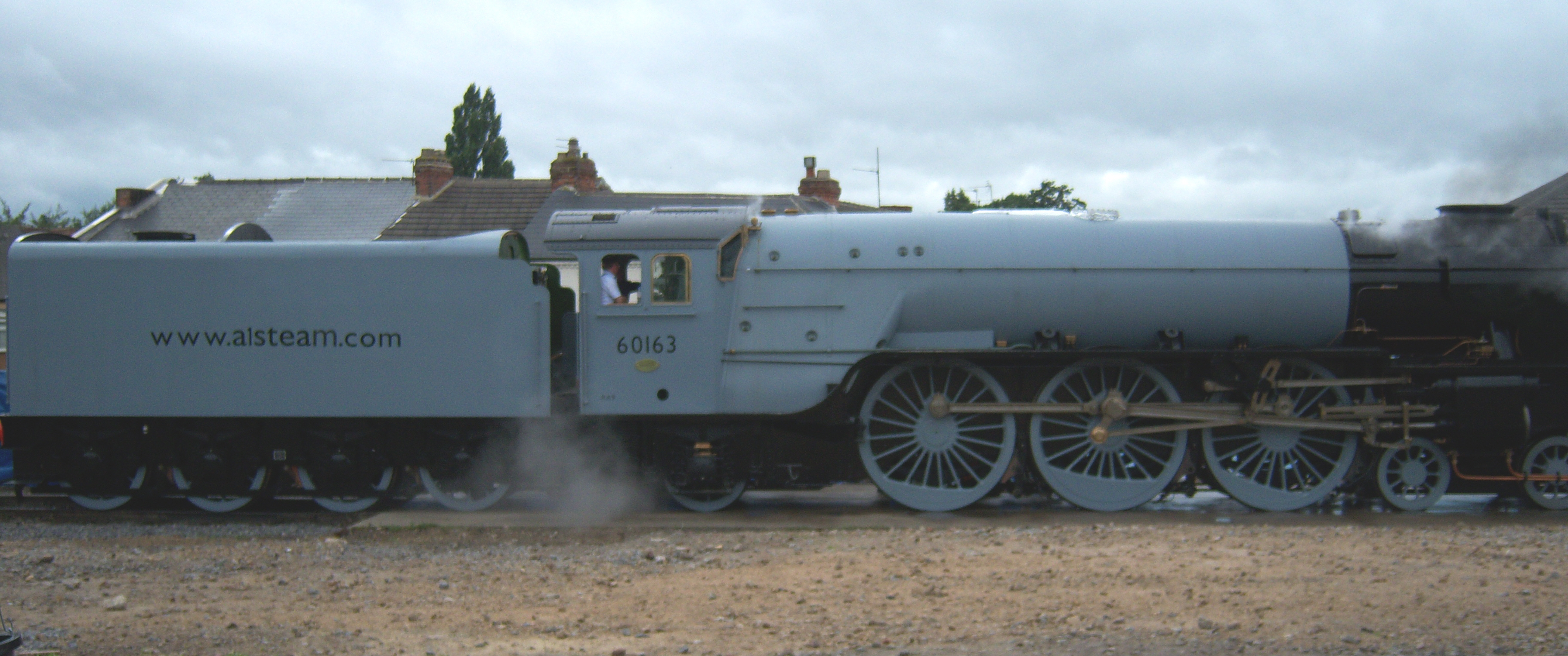 60163 Tornado side on